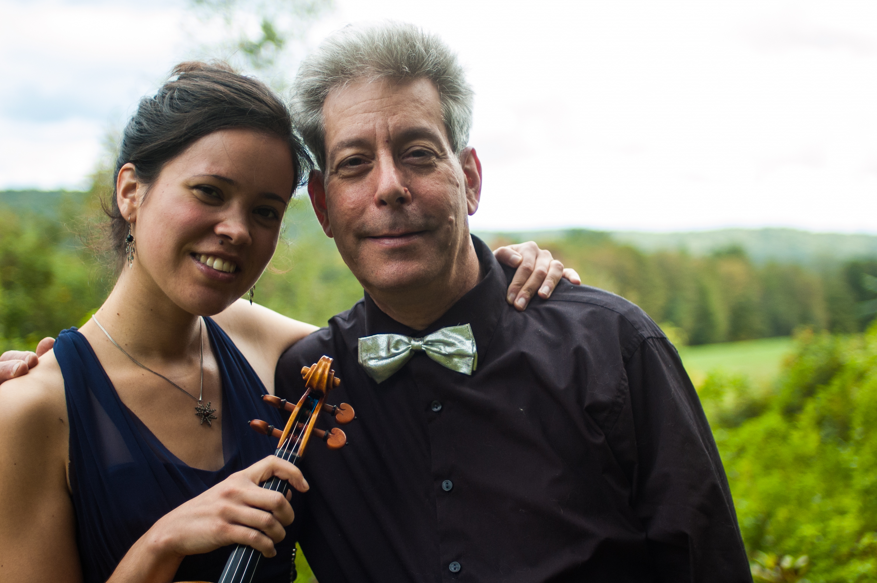 Photo of pianist Elan Sicroff and violinist Katharina Paul, taken in Warwick, MA by Will Szal.